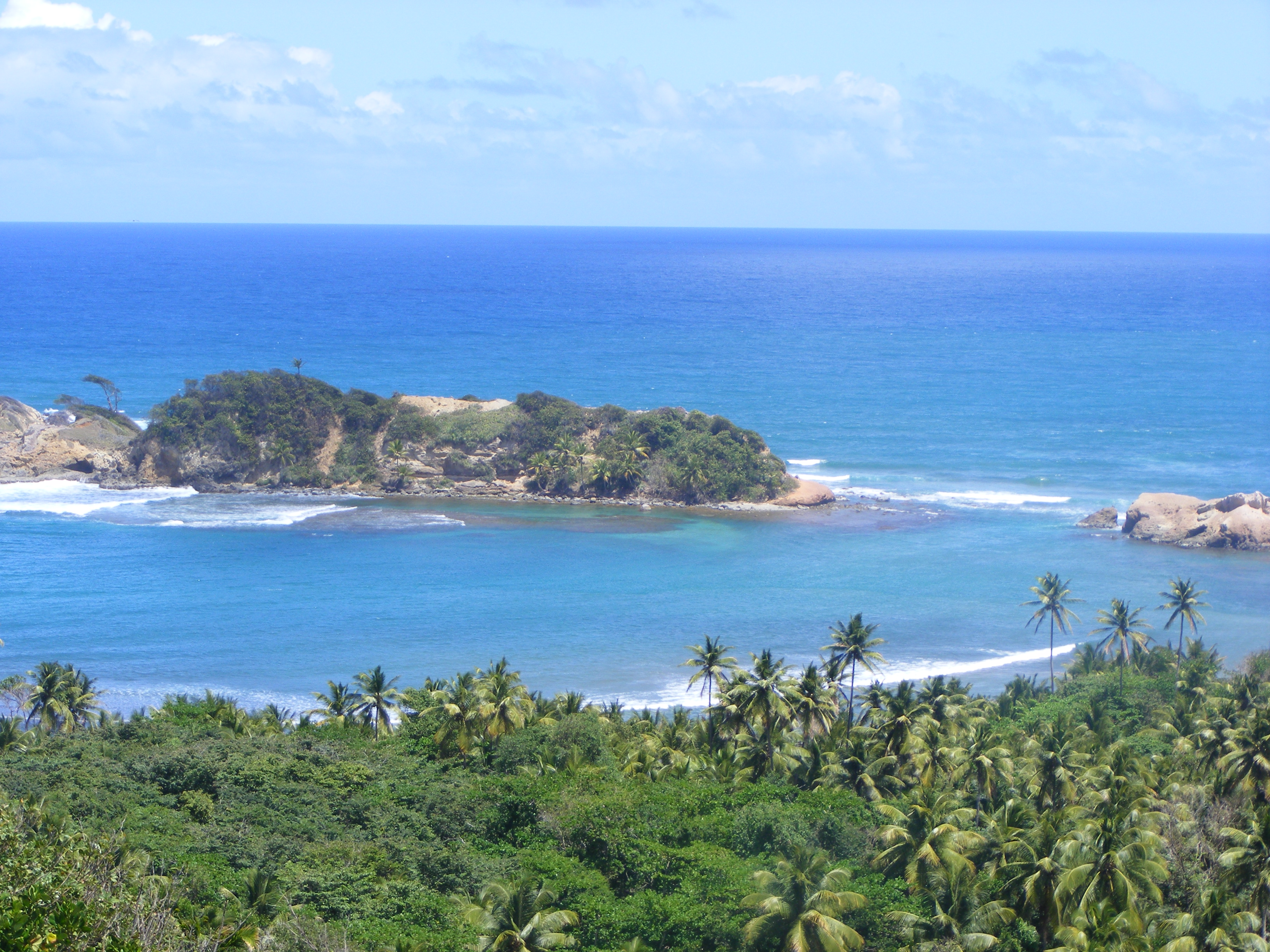 Photo Jpg